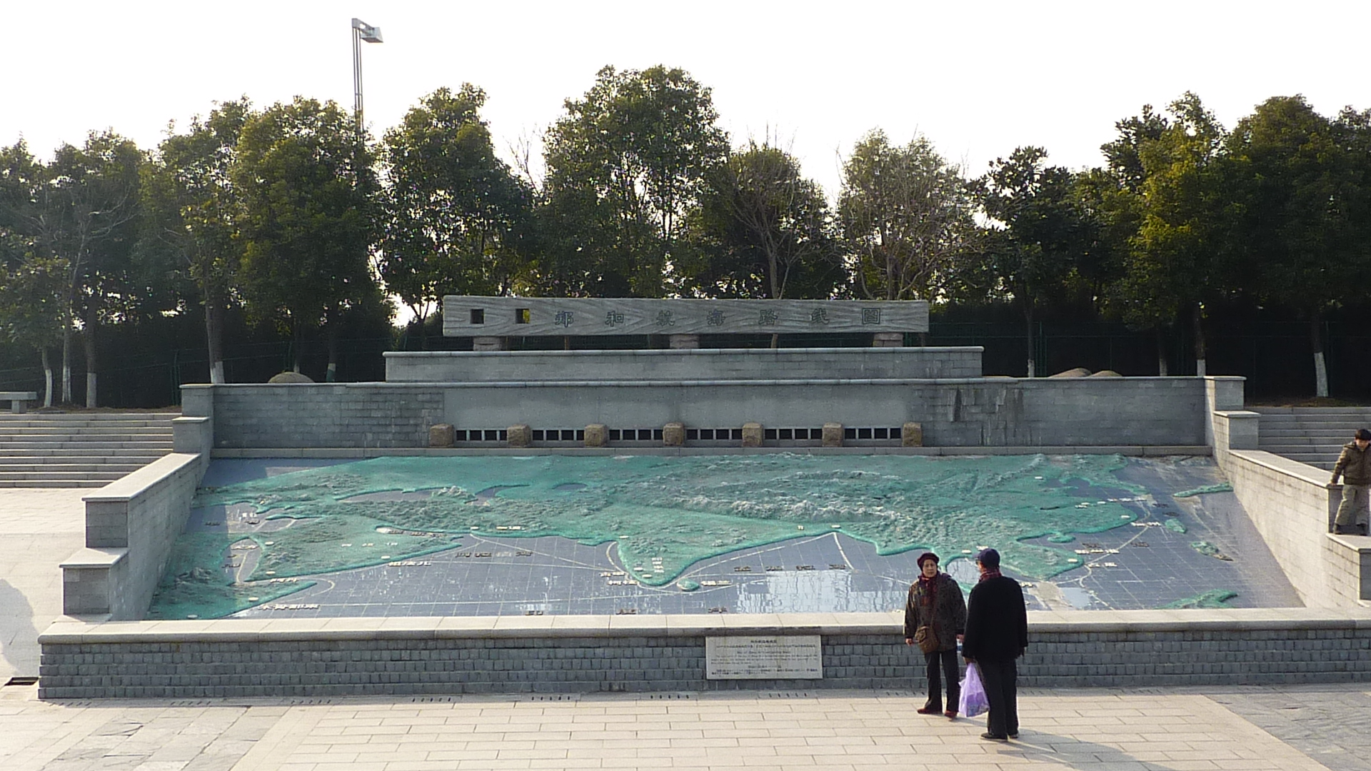 A monumental map of the Zheng He fleet voyages at the Treasure Boat Shipyard site in Nanjing.